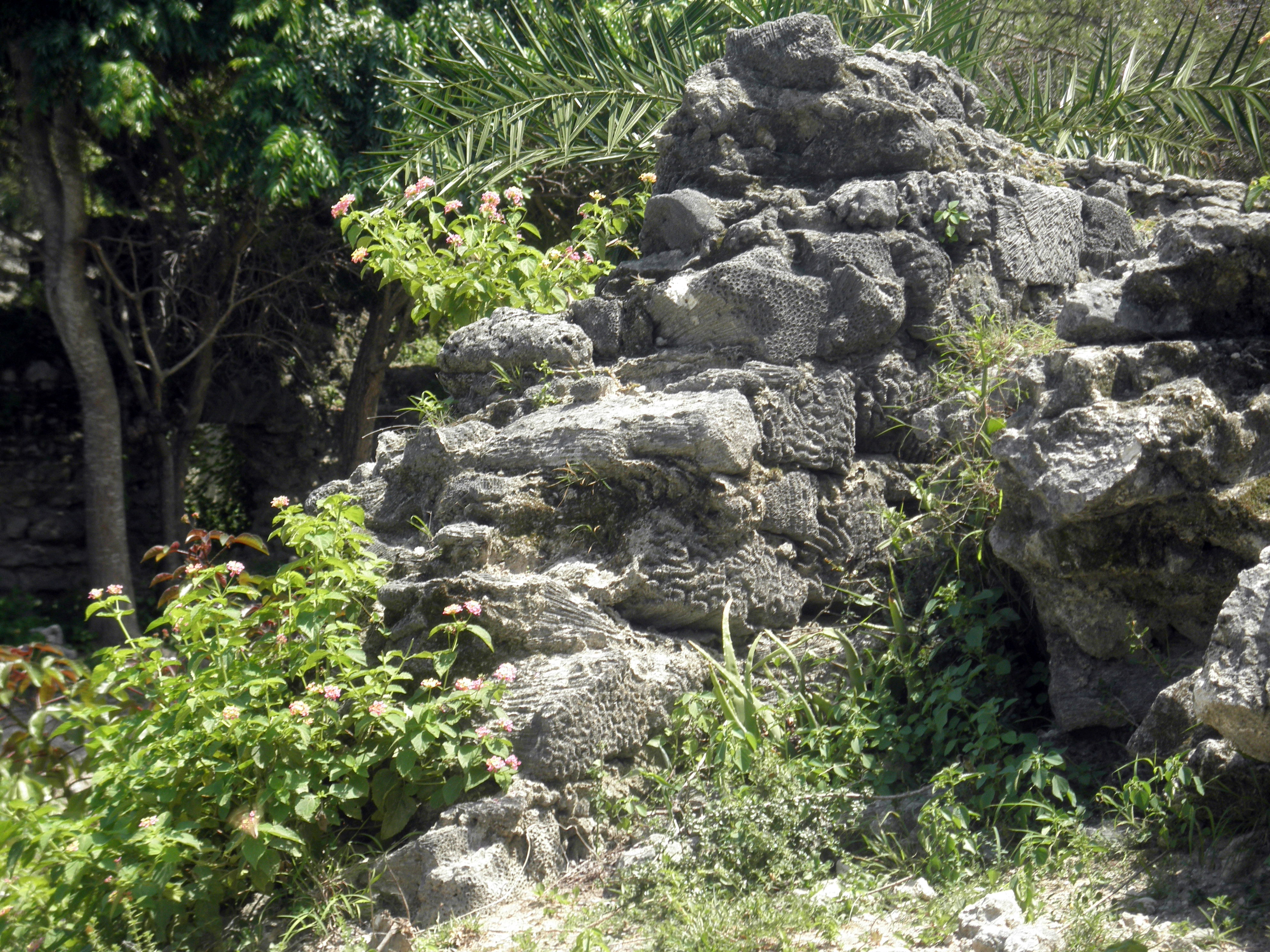 Ruins of the coral-hewn walls of the Portuguese Udupi fort on Kayts Island, Sri Lanka